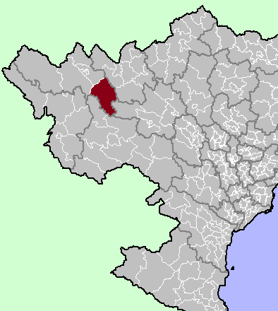 Than Uyen District, Lai Chau Province, Vietnam.